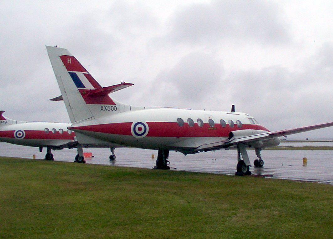 Scottish Aviation Jetstream T1 - Royal Air Force Serial Number XX500 at RNAS Culdrose in June 2004 Photographed by MilborneOne